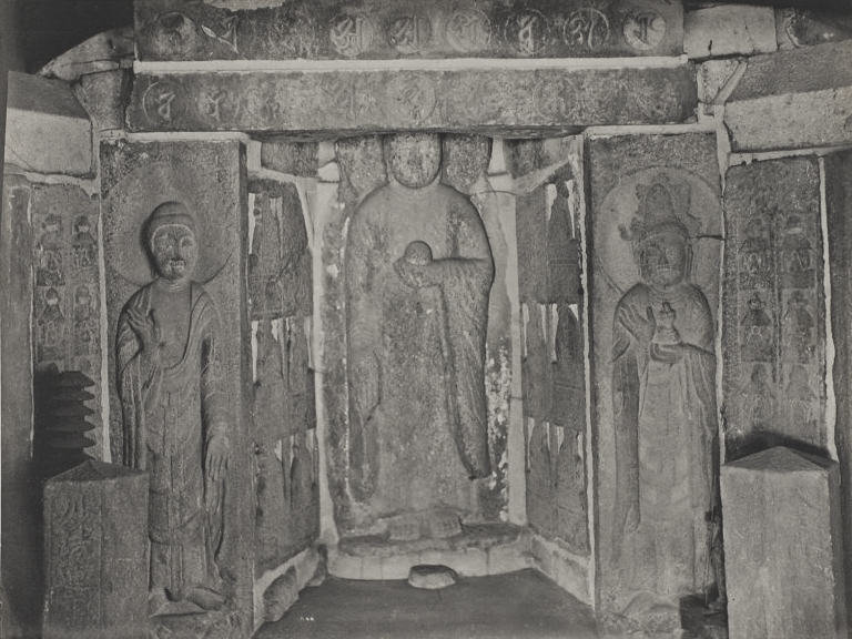 Stone Buddha niche, Jurin-in, Nara, Nara, Japan